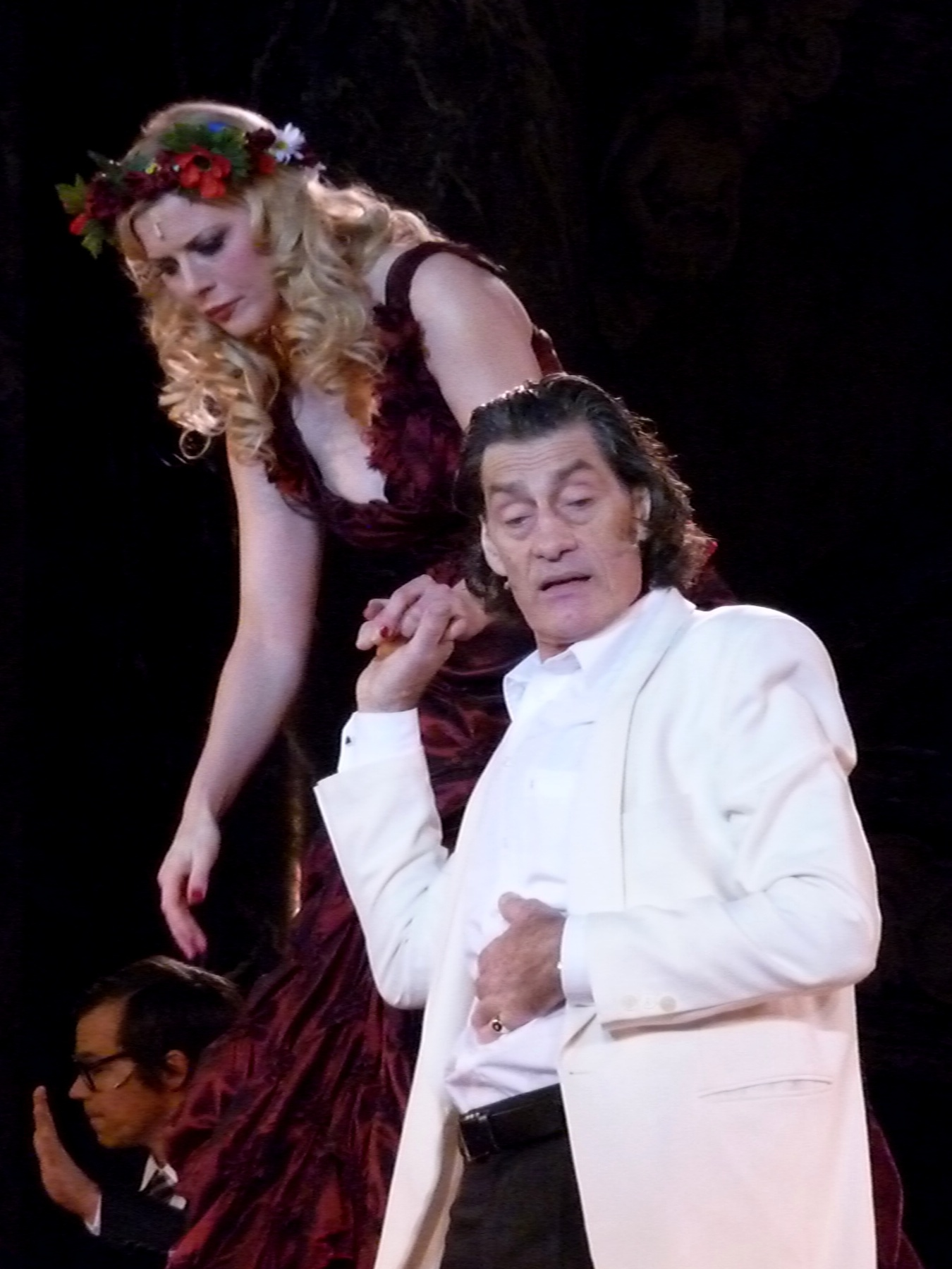 Scene from Hugo von Hofmannsthal's "Jedermann" with German actors Eva Habermann and Winfried Glatzeder, Berlin Cathedral, Germany